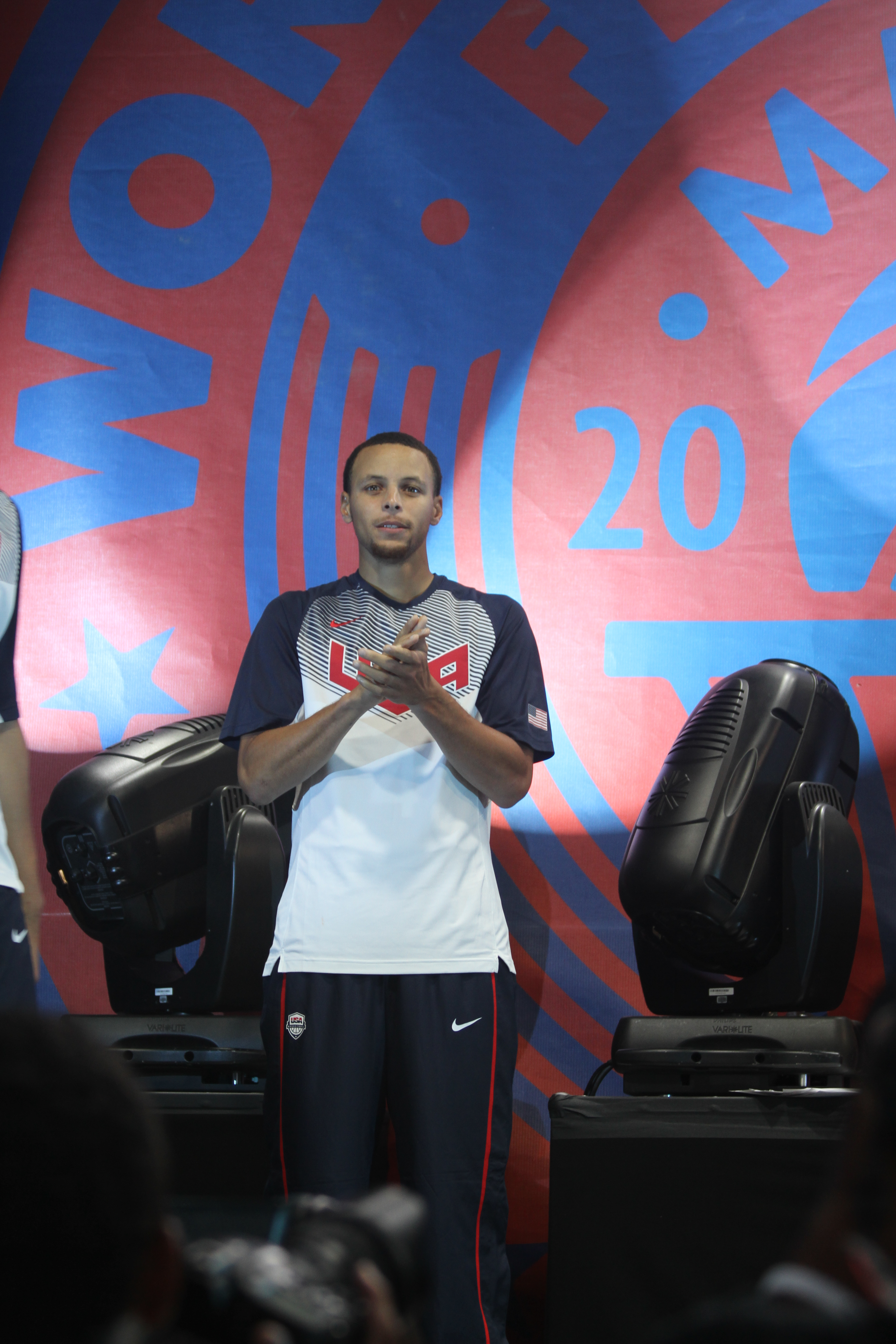 Stephen Curry at 2014 World Basketball Festival at 63rd Street Beach in Chicago